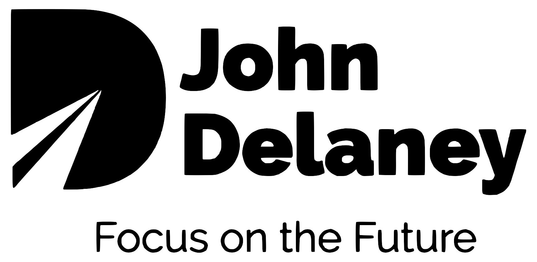 Delaney 2020